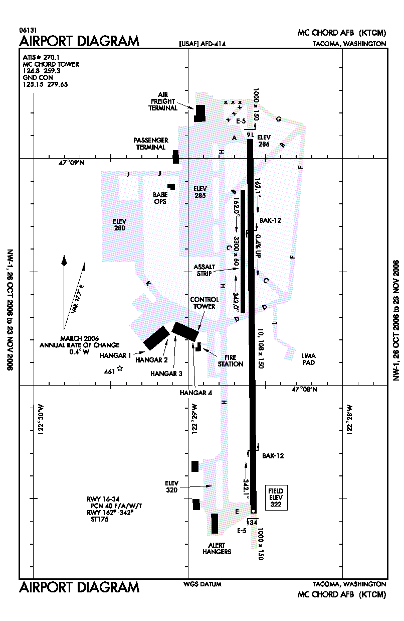 FAA airport diagram for TCM (McChord Air Force Base) in Washington, United States.